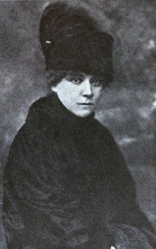 "The Woman Citizen" Mrs. Leonard G. Woods